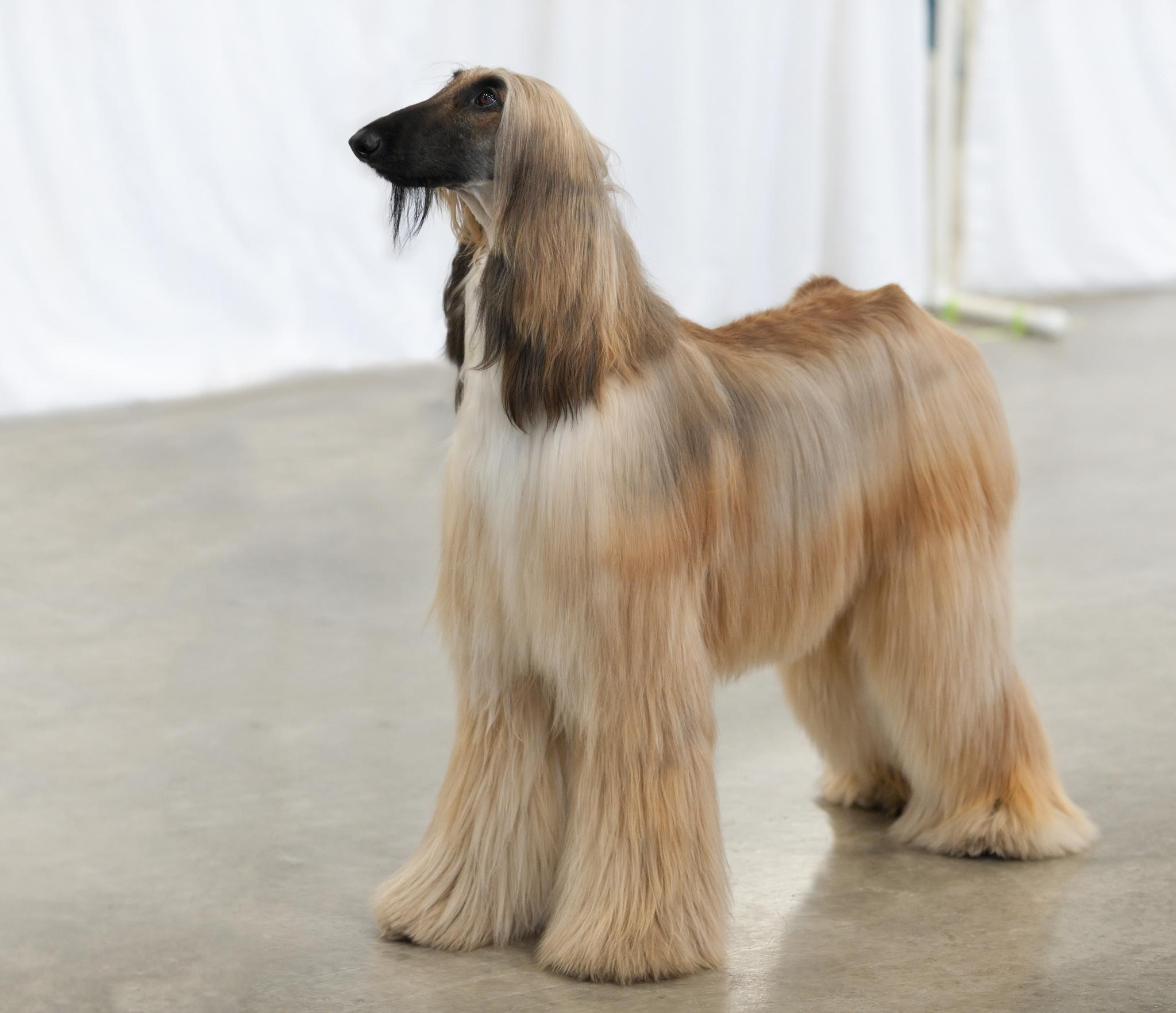 Afghan Hound